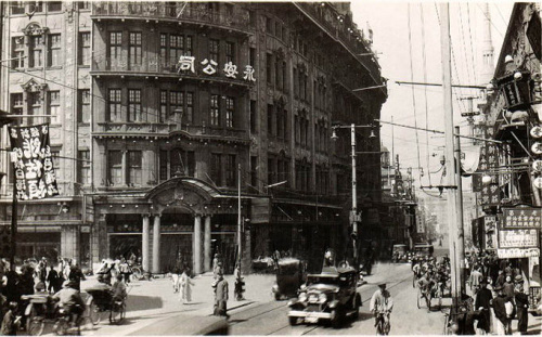 Wing On Department Store Shanghai's branch on Nanjing Road, in 1918